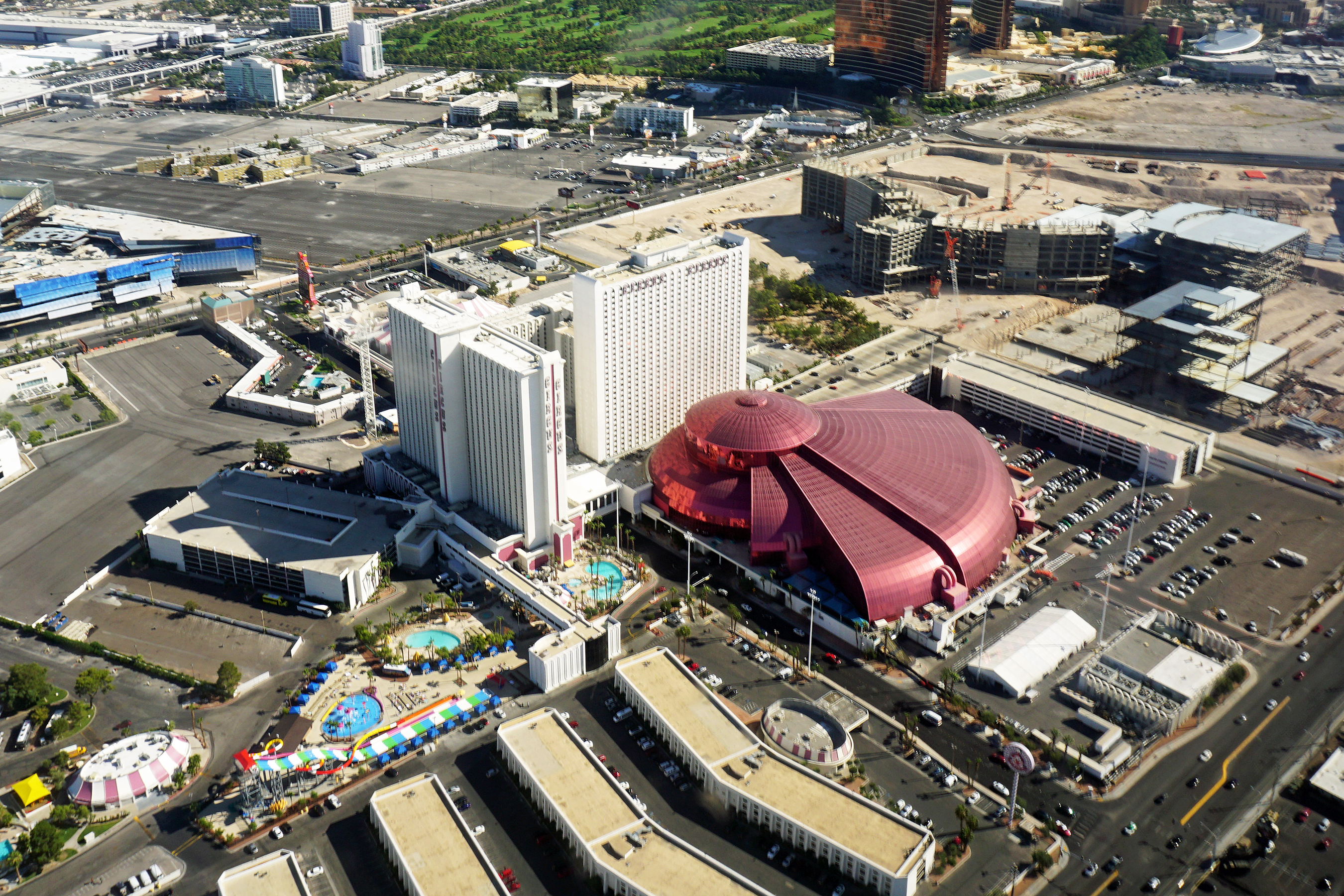 Aerial view of the Circus Circus Hotel & Casino